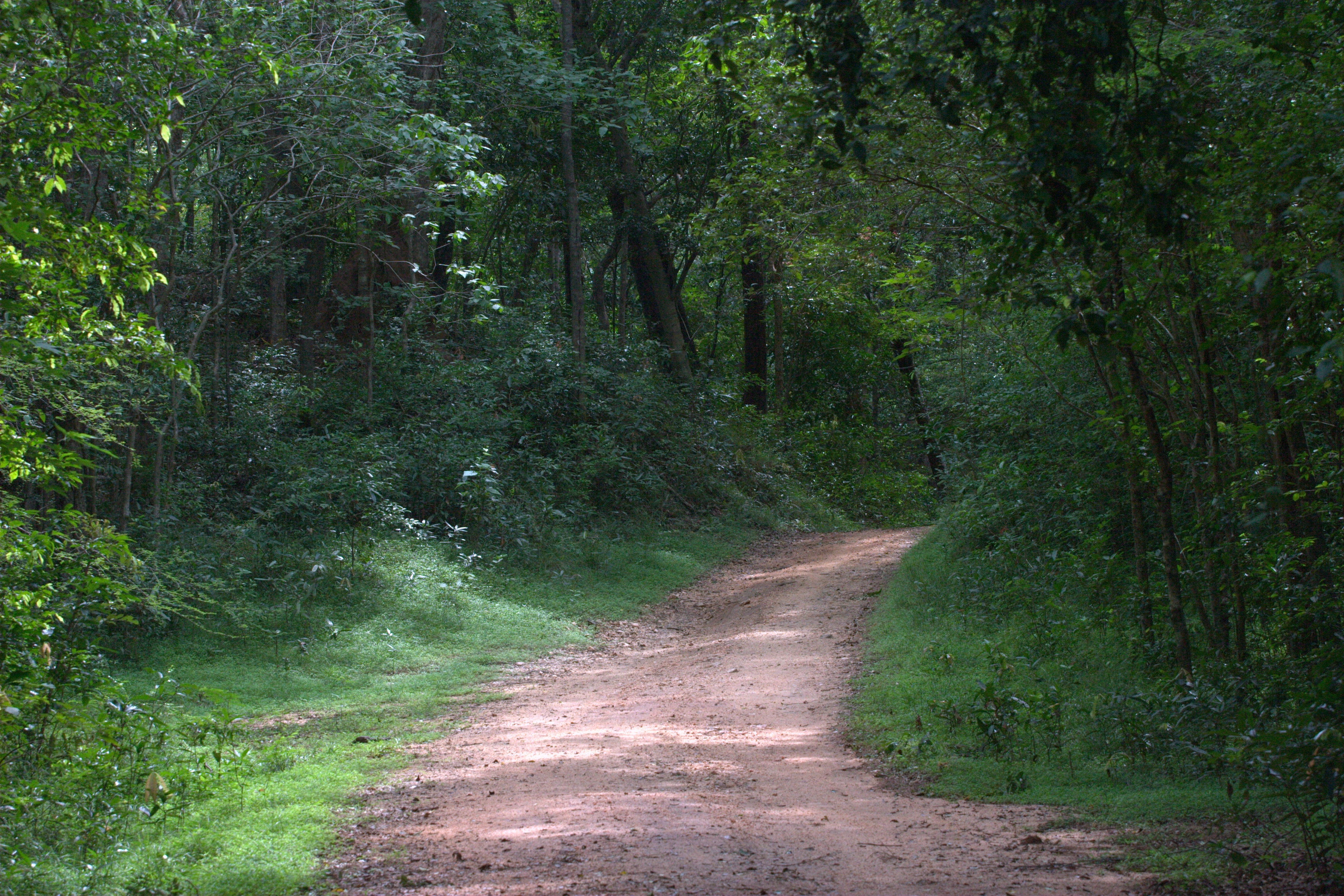 path for kaludiya pokuna forest site